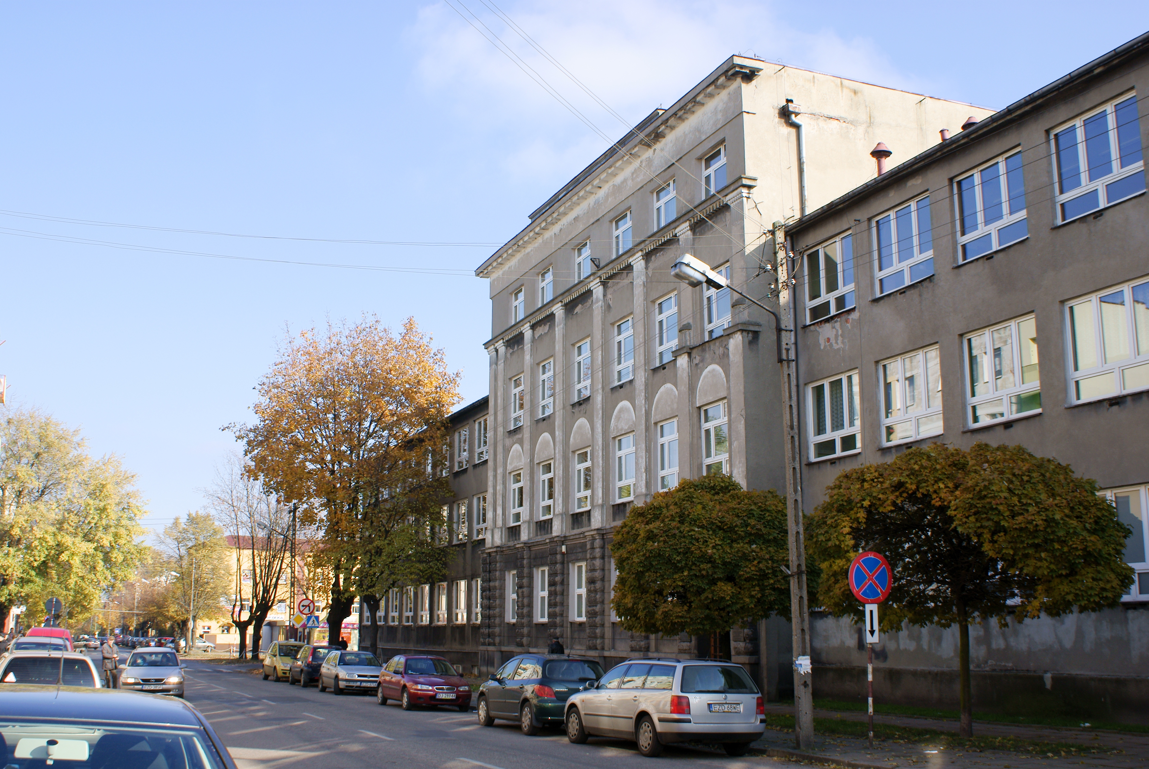 Casimir III the Great High School in Zduńska Wola Town